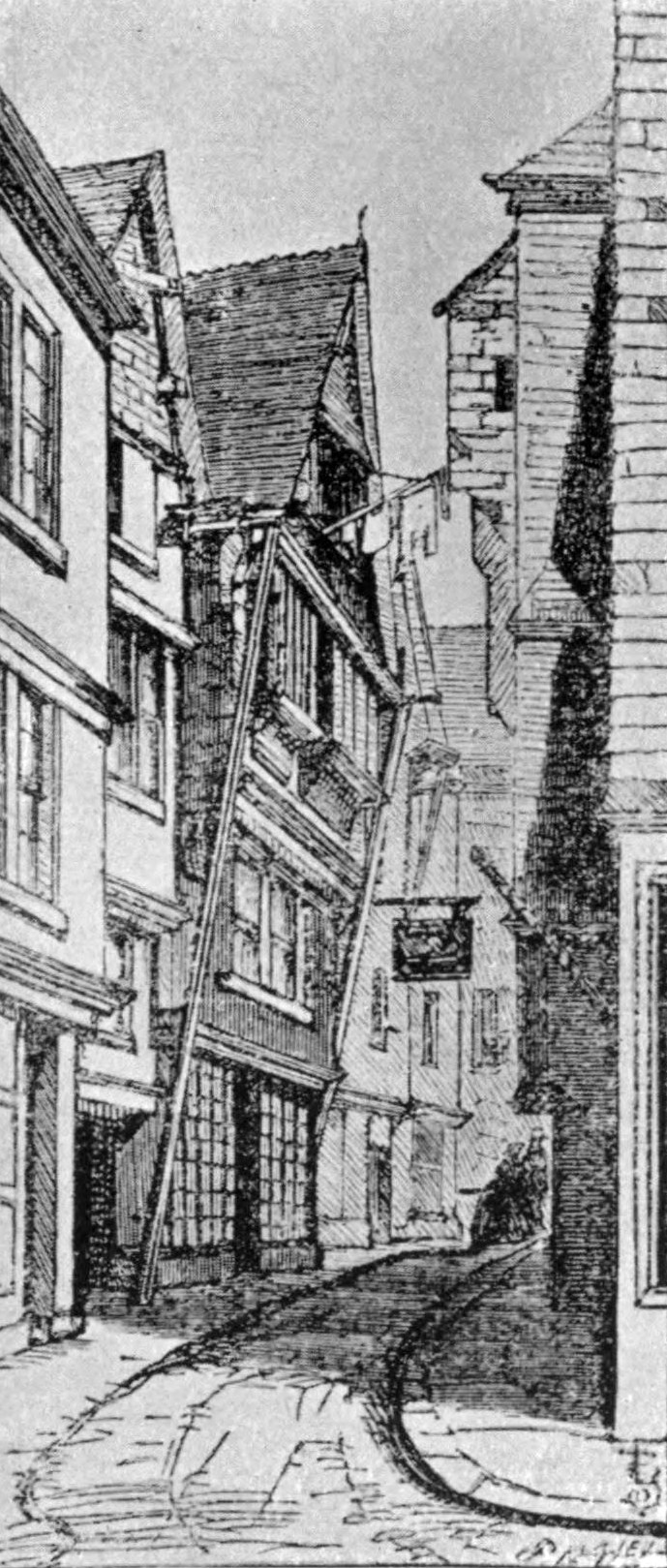 From a scanned version of Devonshire characters and strange events by Sabine Baring-Gould, published in 1908, Chropped one sketch of two out of upload